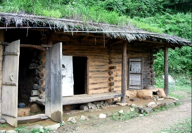 A house in Jirisan, South Korea (지리산 빨치산의 아지트 민가)